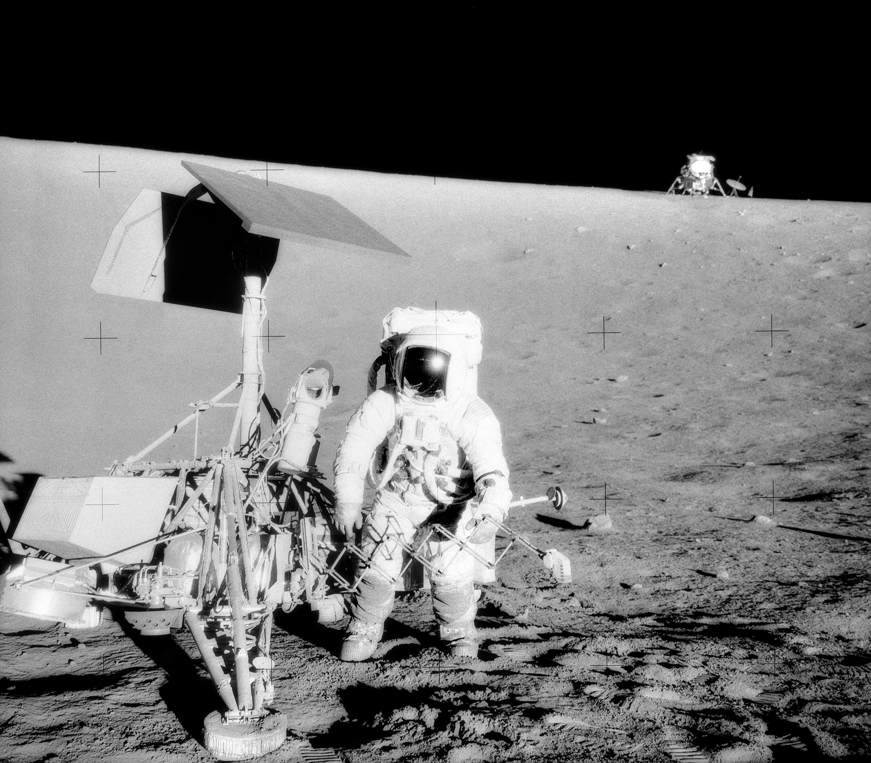 Charles Conrad Jr., Apollo 12 Commander, examines the unmanned Surveyor III spacecraft during the second extravehicular activity (EVA-2). The Lunar Module (LM) "Intrepid" is in the right background. This picture was taken by astronaut Alan L. Bean, Lunar Module pilot. The "Intrepid" landed on the Moon's Ocean of Storms only 600 feet from Surveyor III. The television camera and several other components were taken from Surveyor III and brought back to earth for scientific analysis. Surveyor III soft-landed on the Moon on April 19, 1967.